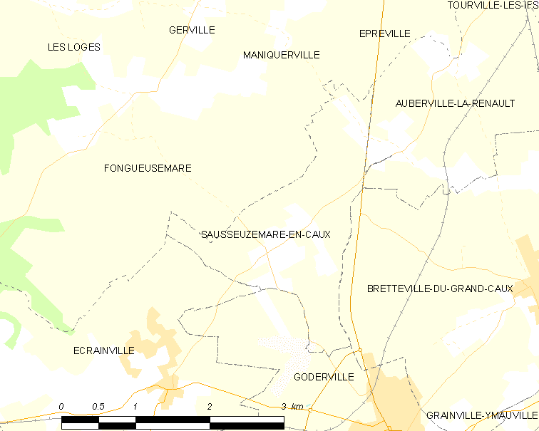 Map of French municipality Sausseuzemare-en-Caux